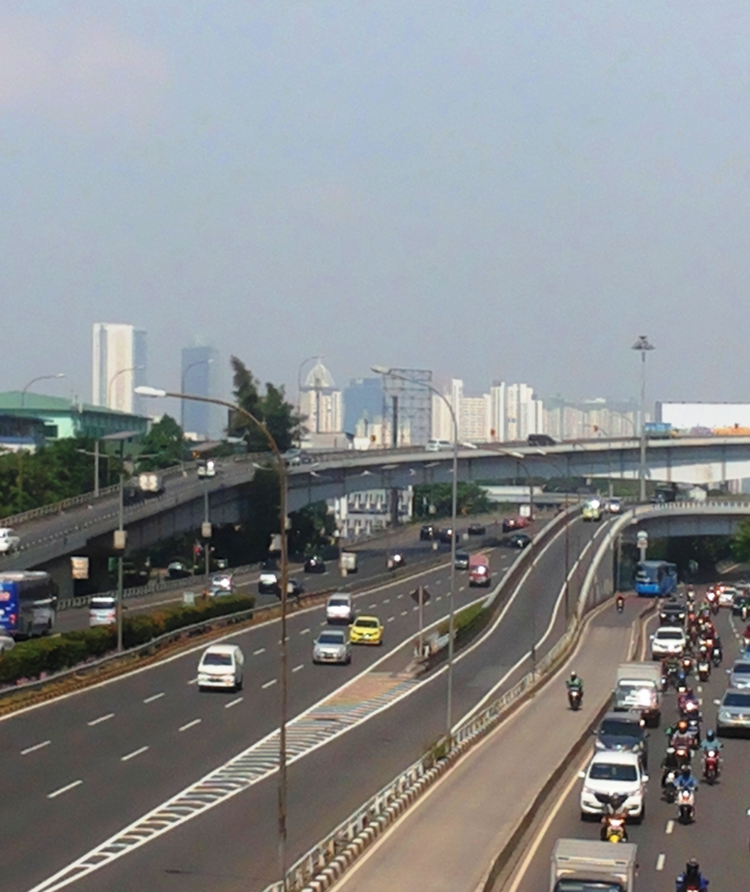 Jalan Letnan Jenderal S. Parman in Jakarta